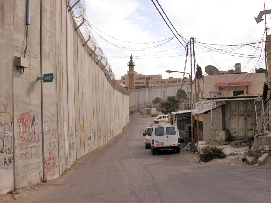 The wall in Abu Dis